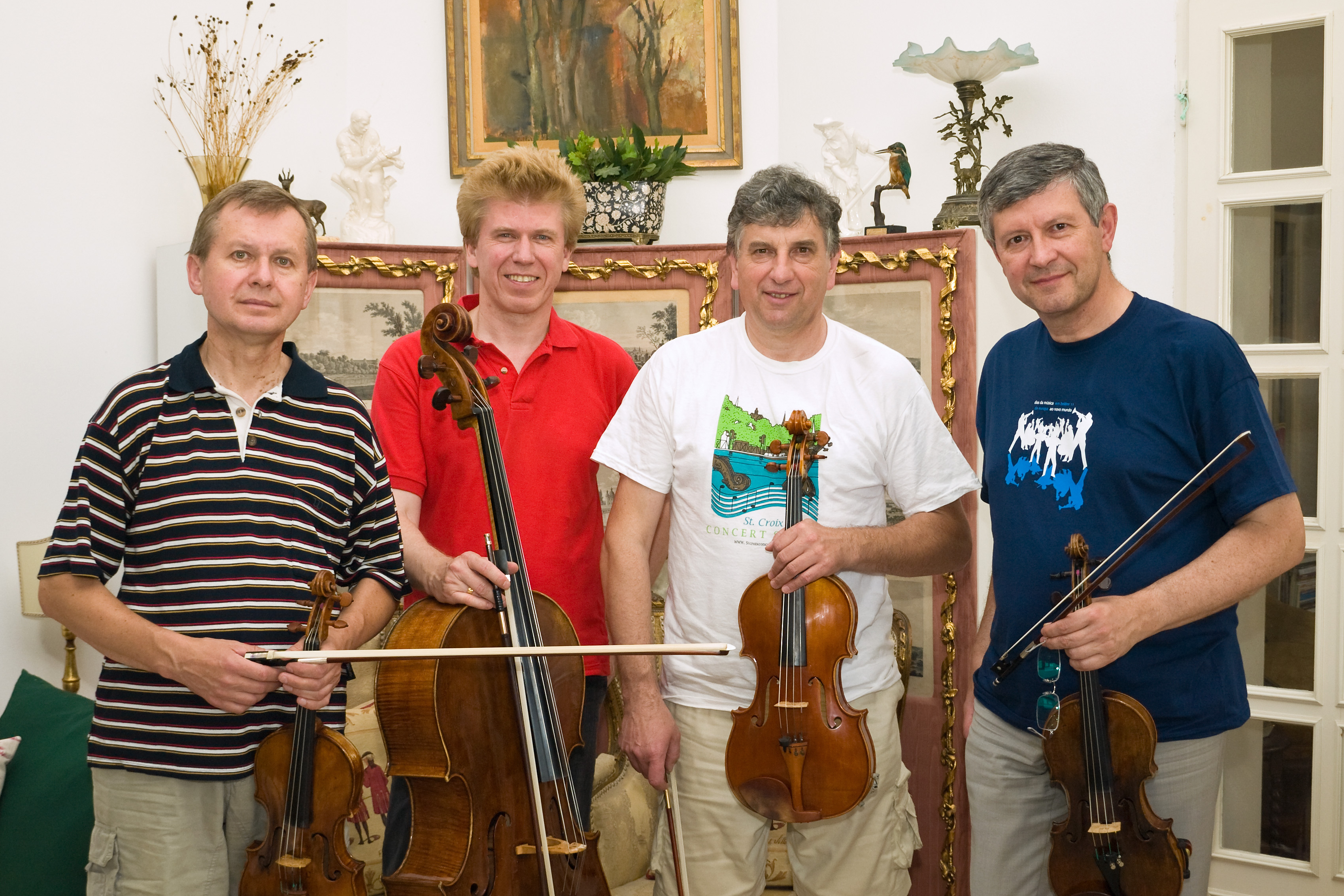 Czech Pražák Quartet after a private practice, left to right: Vlastimil Holek (violin), Michal Kaňka (cello), Josef Klusoň (viola), Pavel Hůla (violin)